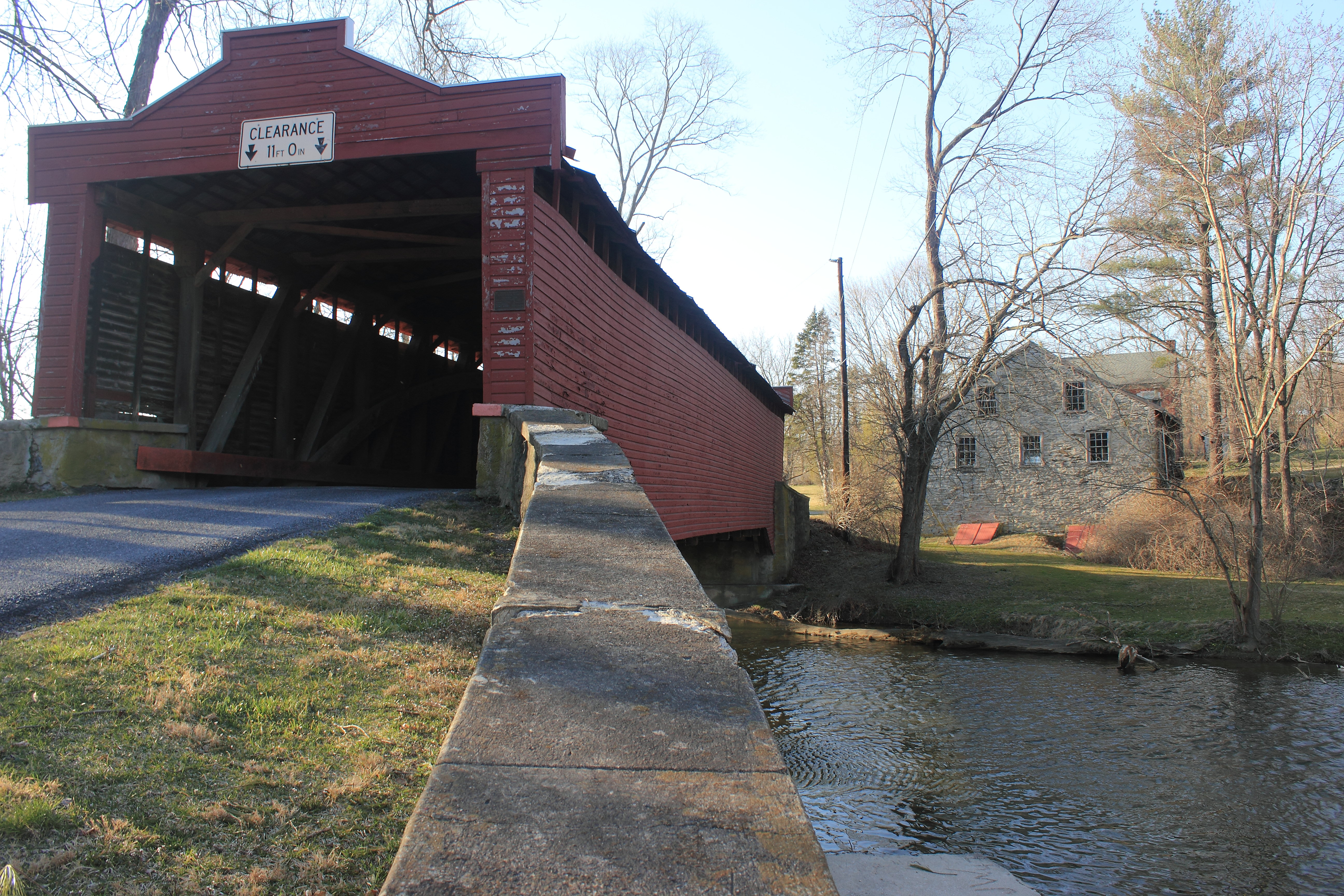 Kutz Mill near Kutztown with Kutz covered bridgeBridge Reference Number: Mill Reference Number